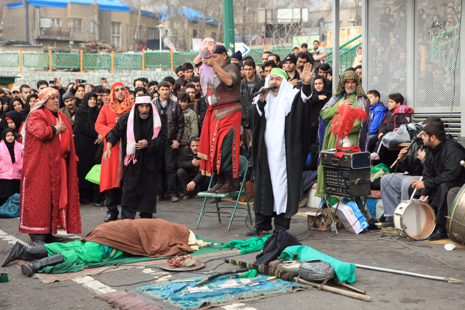 Passion Play on the tragic fate of Hussein in Karbala